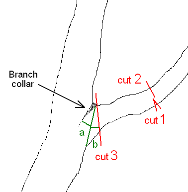 Correct pruning of a branch - diagram User:MPF